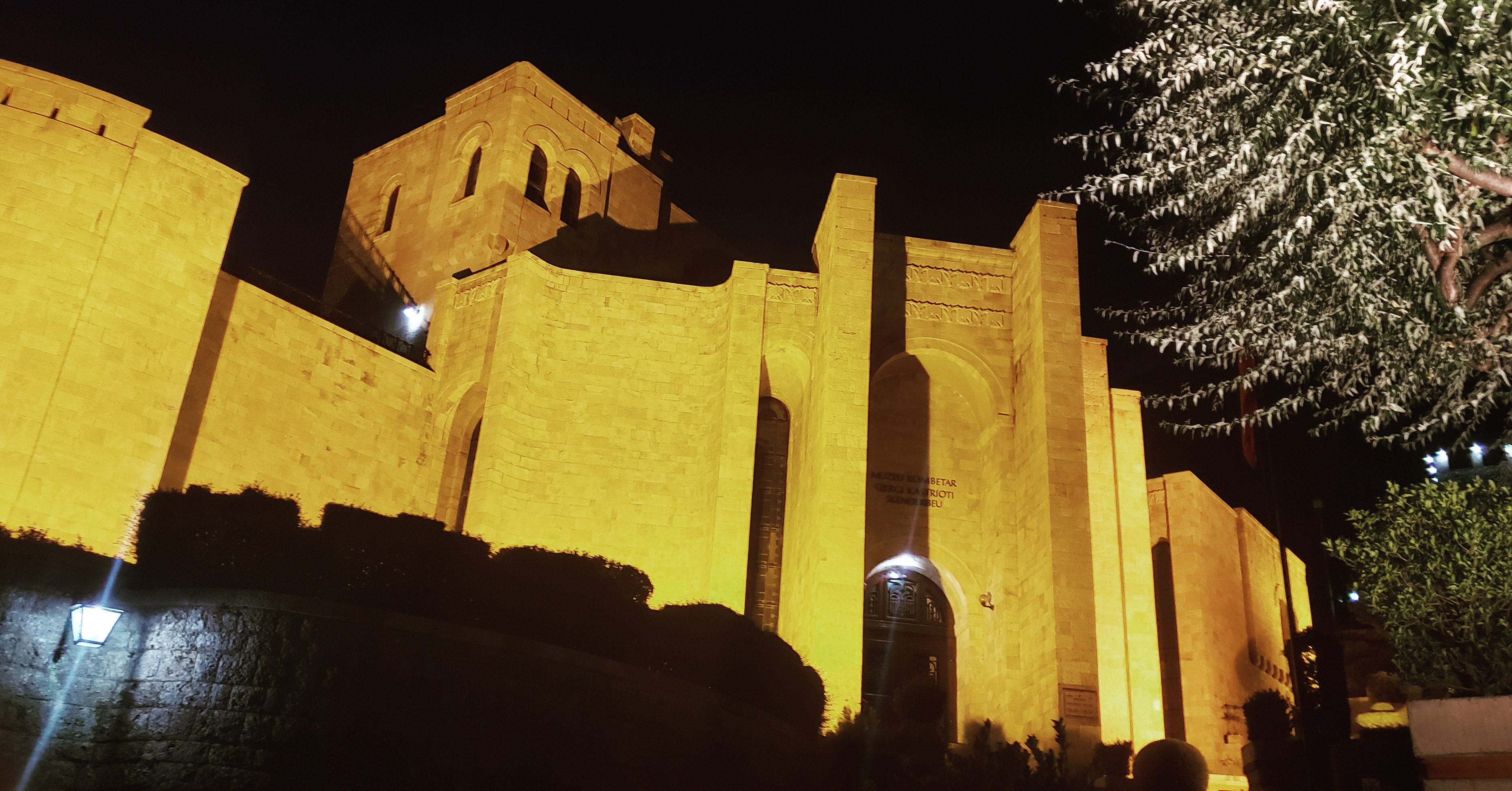 Picture taken on August 2018